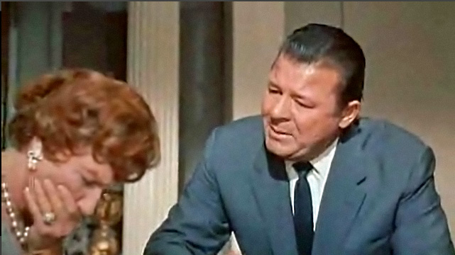 Screenshot of Jack Carson from the trailer for the film Cat on a Hot Tin Roof (film)